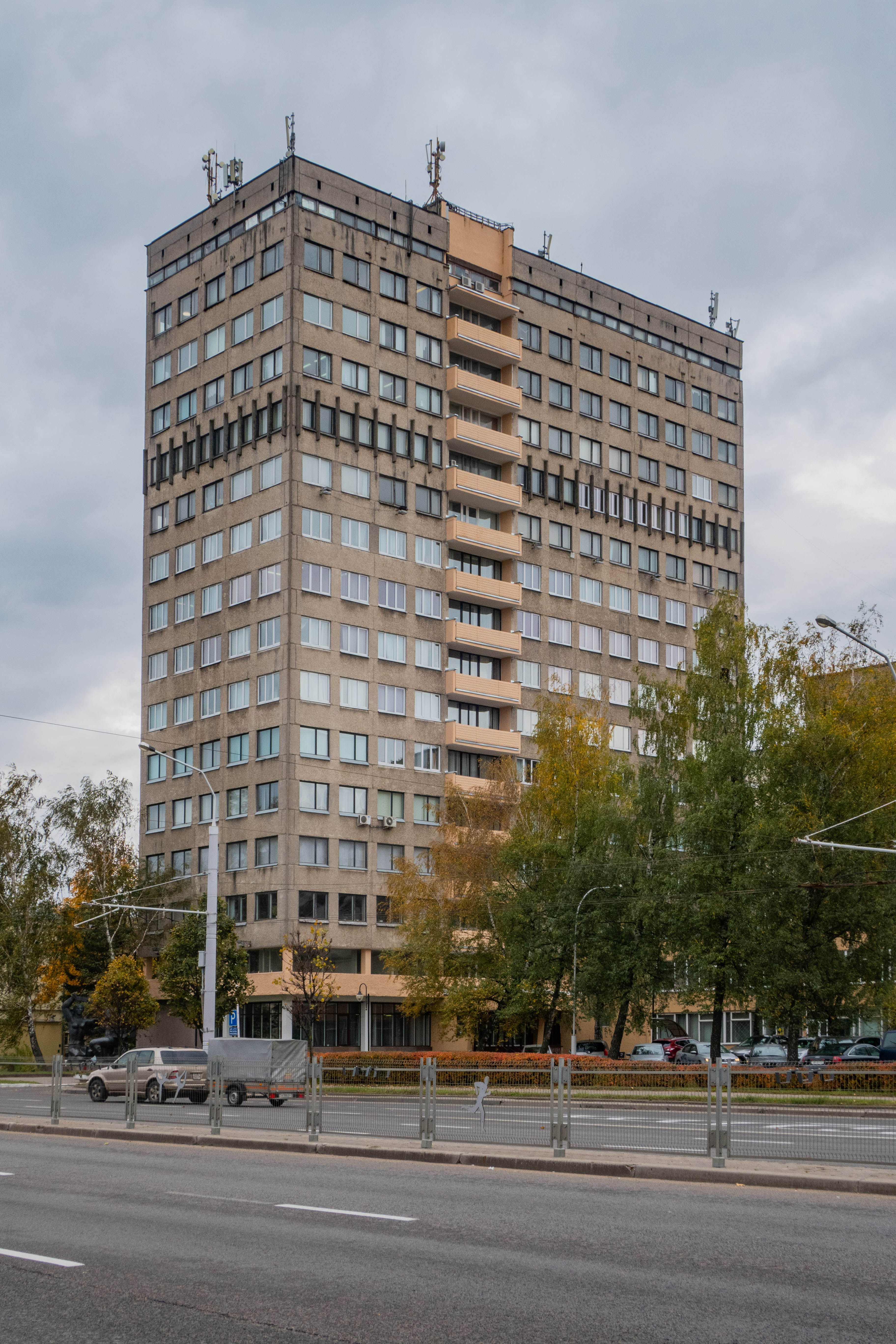 Ministry of industry of Belarus. 2k4 Partyzanski avenue. Minsk, Belarus